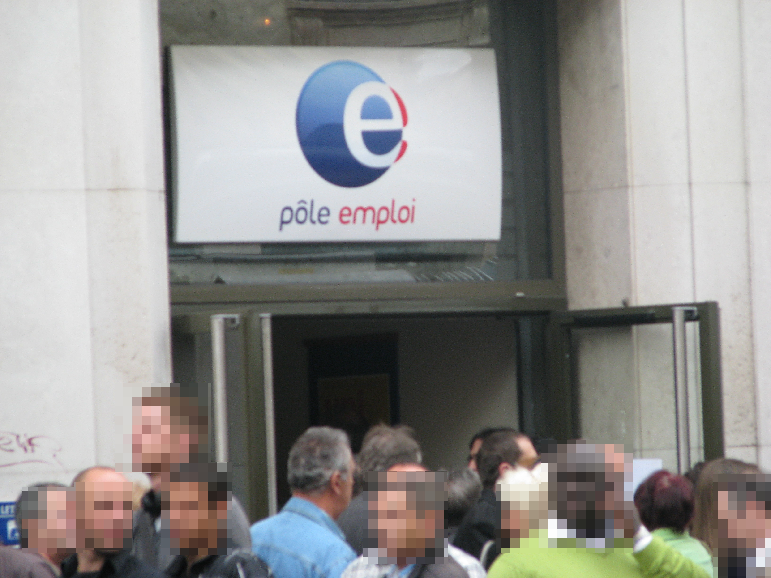 Pole emploi Lyon